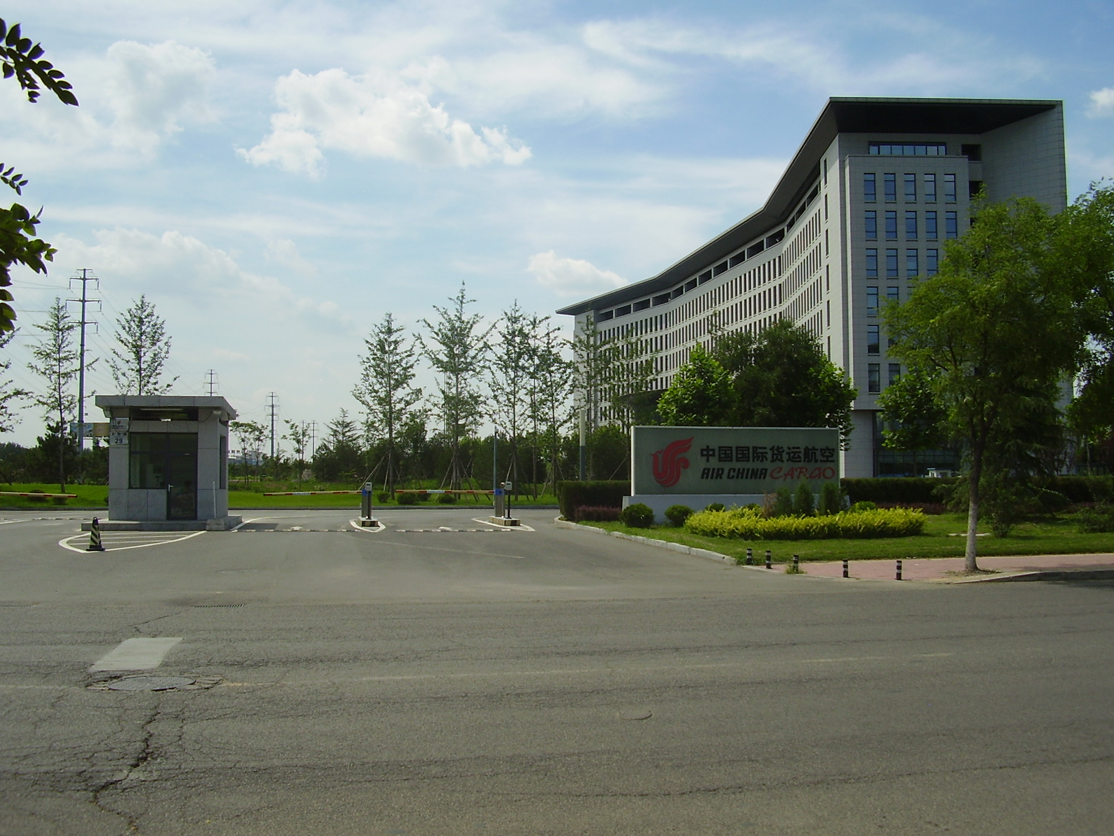 Headquarters of Air China Cargo - 29 Tianzhu Road Tianzhu Airport Economic Development Zone Shunyi District Beijing P.R.China Zip code 101318